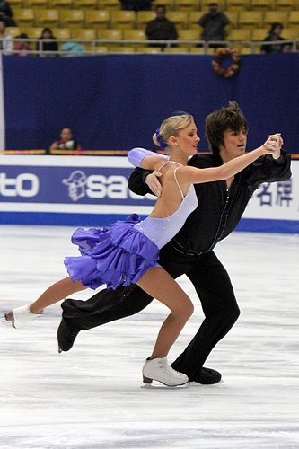 Alexandra Stepanova / Ivan Bukin at the 2010-2011 Junior Grand Prix of Figure Skating Final.